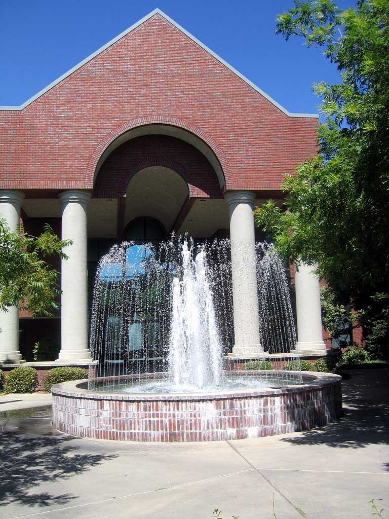 Mc Donald Hall, Fresno Pacific University, Fresno, California